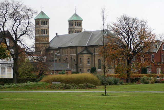 Sacred Heart Church, Linthorpe Road As seen from the back in Albert Park. Sited almost exactly on the grid line the church was built in 1934 as The Sacred Heart of Jesus and St Philomena but became just Sacred Heart Church in the 1960s.